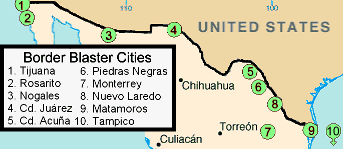 Derived from gov't work image (CIA Factbook image in Commons Image:Mx-map.png) by User:Hajor (who released rights for Commons upload as Commons:Image:Mexico.BorderBlasters.map.01.png), which I cropped and adjusted for clarity (and also release all rights). Jeffreykopp 14:18, 13 January 2007 (UTC)